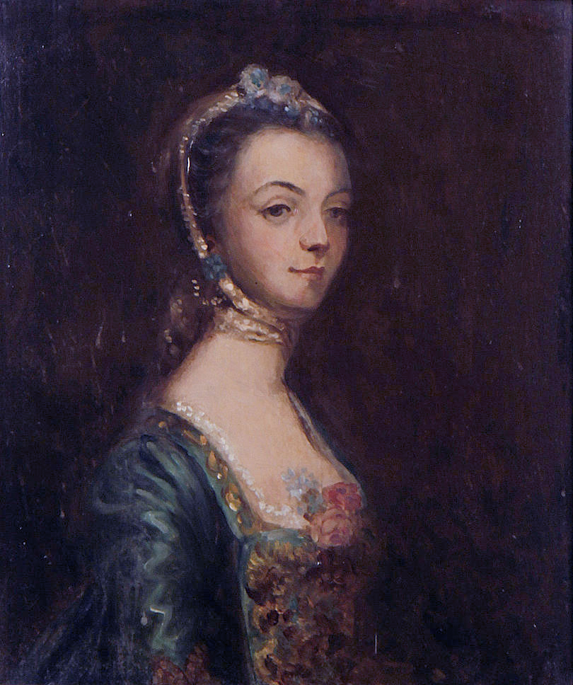 Anne Speke (before 1741–1797), daughter of George Speke, MP, of Whitelackington, Somerset, and wife of Frederick North, 2nd Earl of Guildford. Copy after the original by Sir Joshua Reynolds in a private collection.